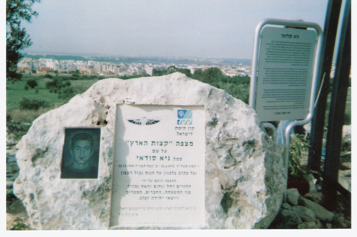 gai sudai memorial in shoham forest